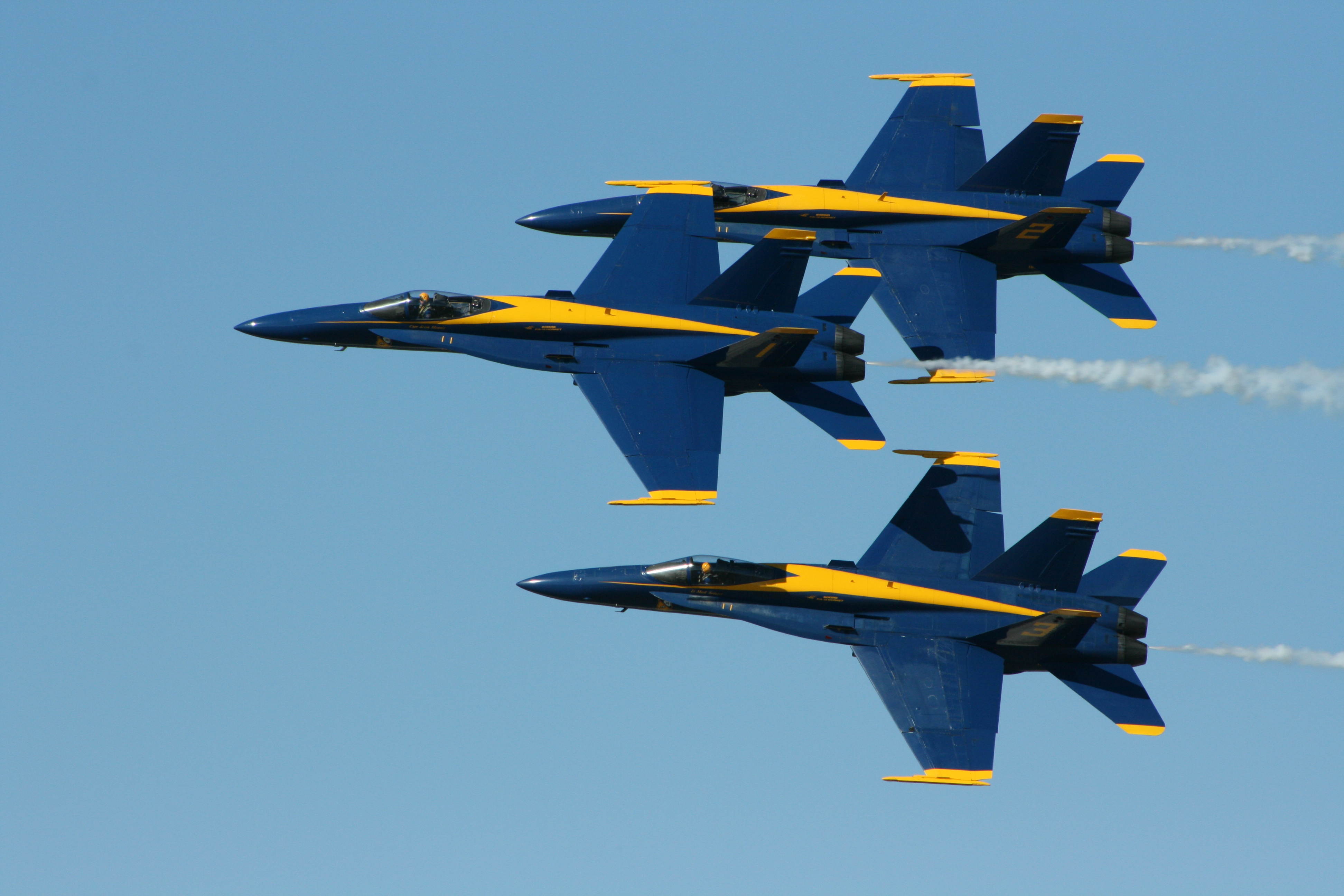 Photo of the US Navy Blue Angels during the Air Show at the Naval Air Station in Jacksonville, Florida, USA.